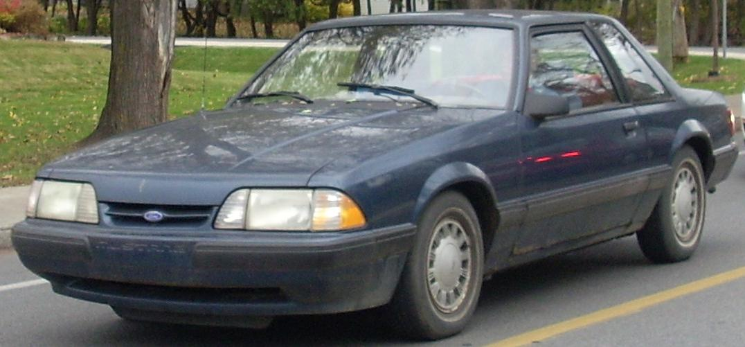 1987-1990 Ford Mustang coupe photographed in Montreal, Quebec, Canada.